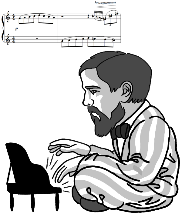 Caricature of Claude Debussy, sitting in a taylor's sit, wearing pajamas at a toy piano